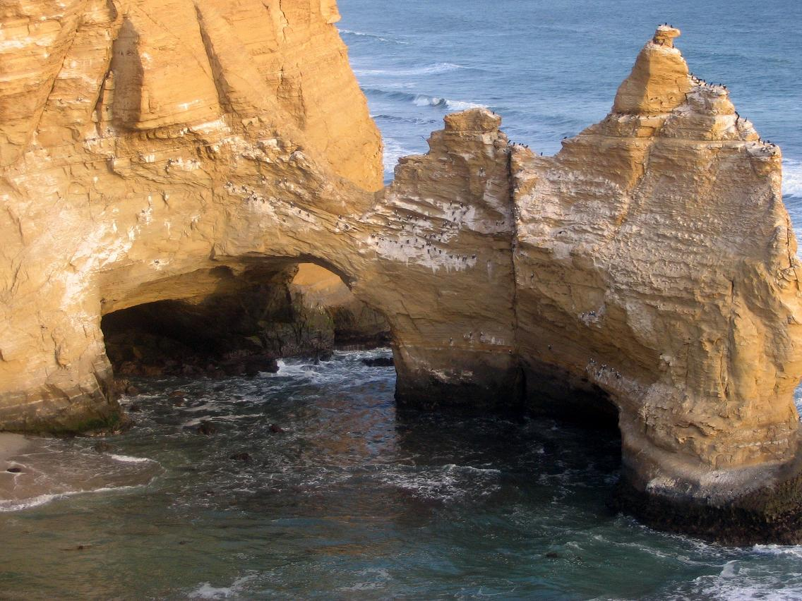 Cathedral in Paracas, Peru.